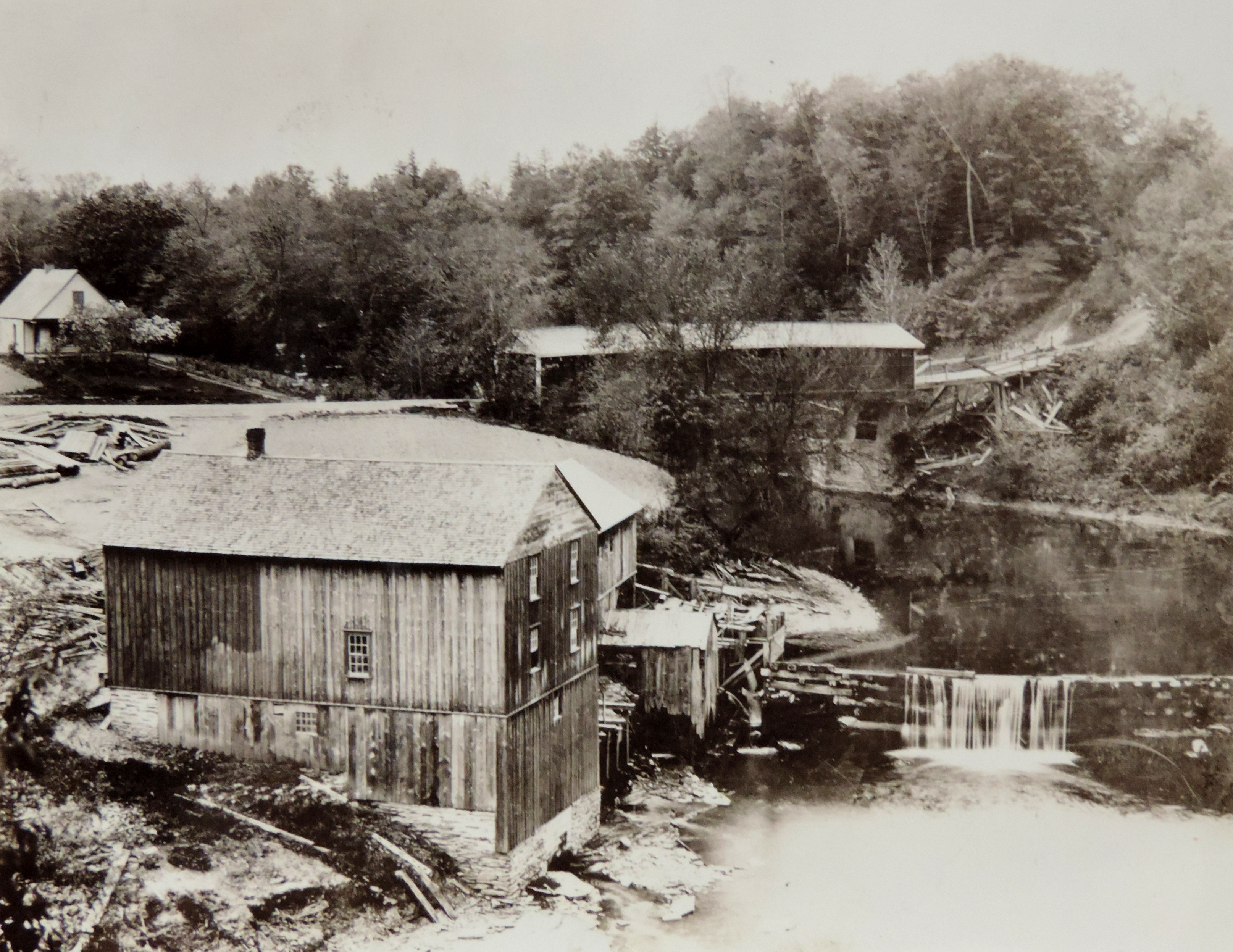 View of the mill in Griffins Mills from Cazenovia Creek taken late 1800's or early 1900's